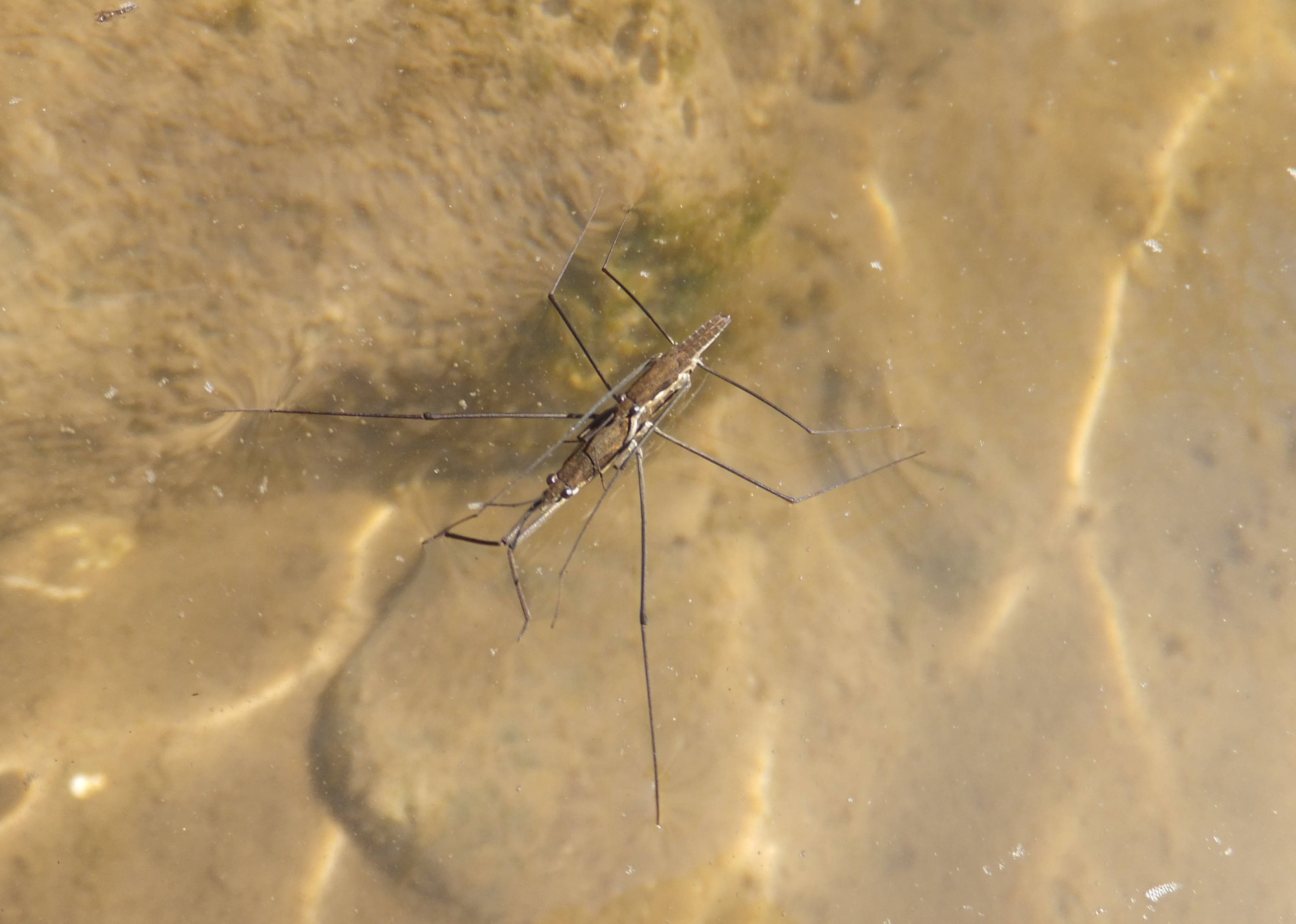 Two river skaters (Aquarius najas) mating, photographed in the waters of river Avisio, near Prà (Segonzano, Italy)